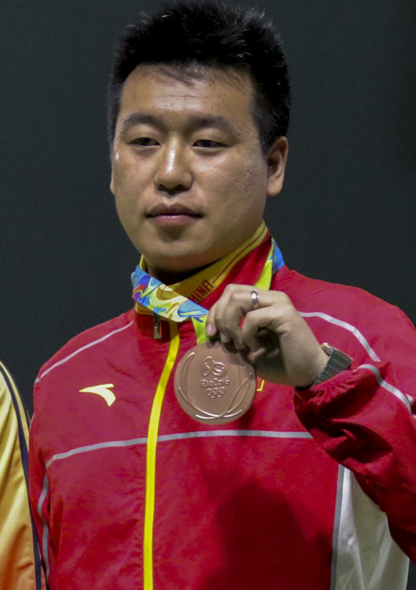 Shooters medalists in 2016 Rio 2016 Olympics